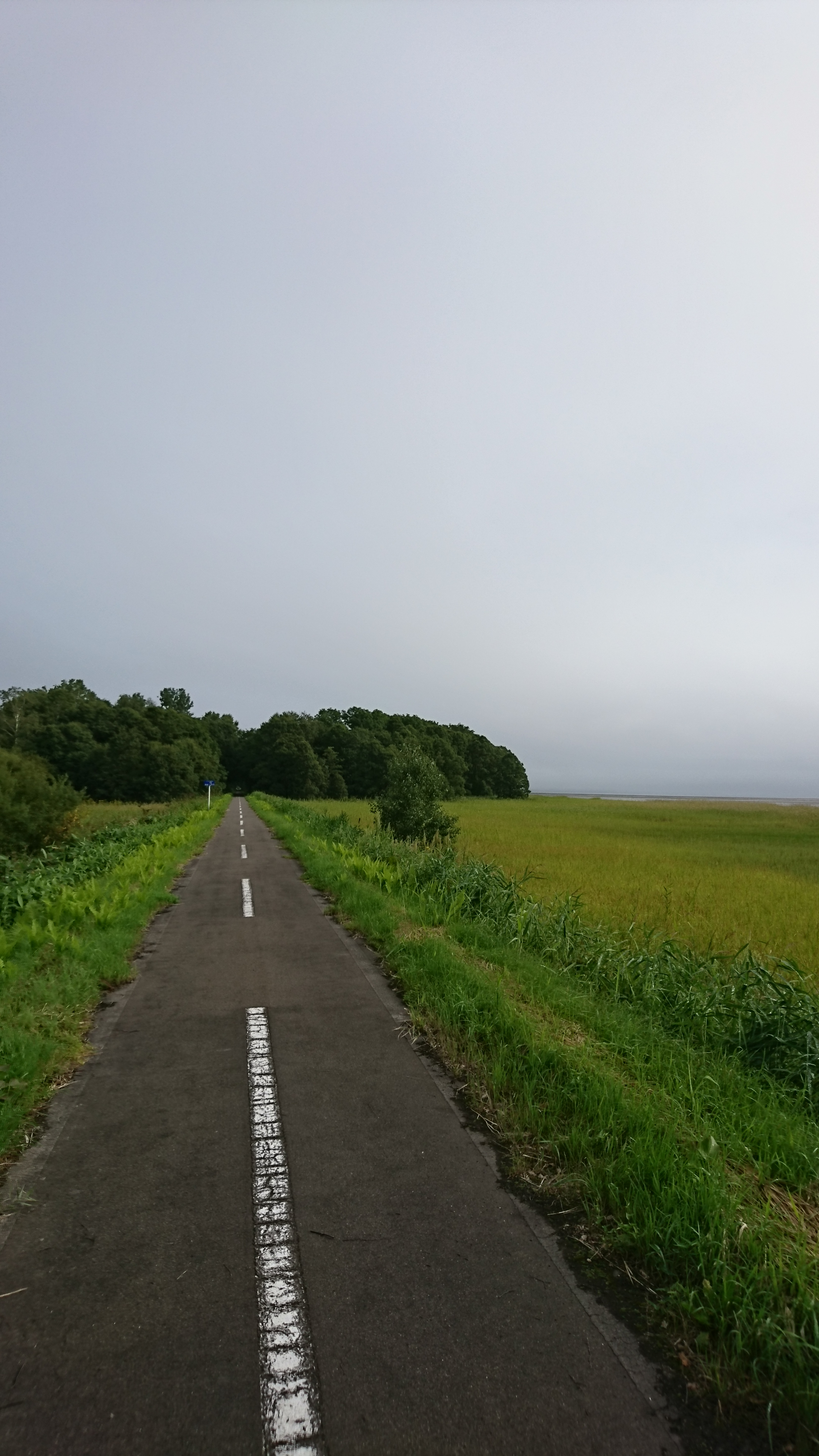 Okhotsk cyclyngroad at heiwa